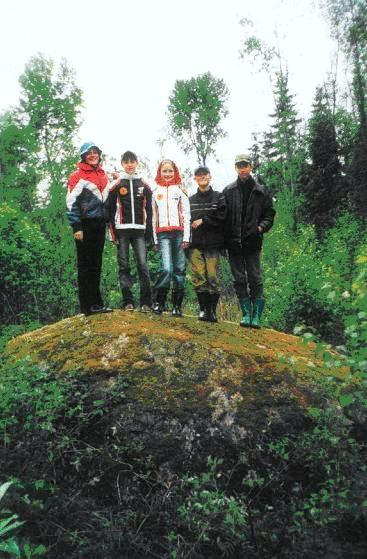 Bull-Stone in Kazici